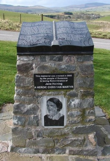 Jane Haining Memorial, Dunscore Memorial commemorates Jane Haining of Dunscore, a Christian who worked as a matron in the girls’ school of the Jewish Mission station in Hungary. Arrested by the Gestapo, she was sent to Auschwitz in 1944 where she died.